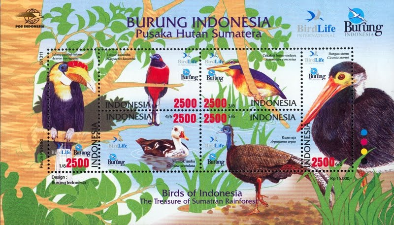 Endangered birds from Indonesia. Six different species of birds: Wrinkled Hornbill (Aceros corrugatus), Red-naped Trogon (Harpactus kasumba), Rufous-collared Kingfisher (Actenoides concretus), White-winged Duck (Carina scutulata), Great Argus (Argusianus argus) and Storm's Stork (Ciconia stormi). Stamps of Indonesia.